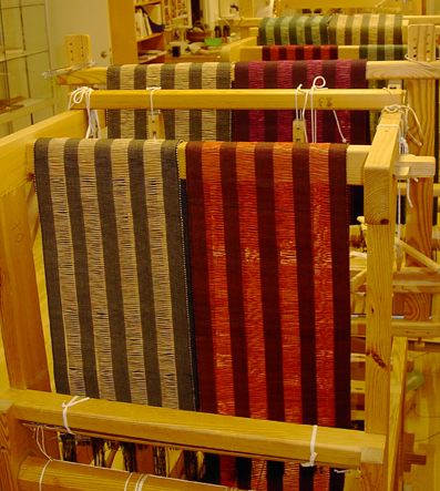 Runners made of paper yarn